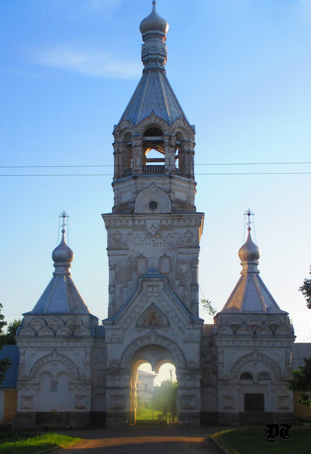 The bell tower of Desyatinny monastery